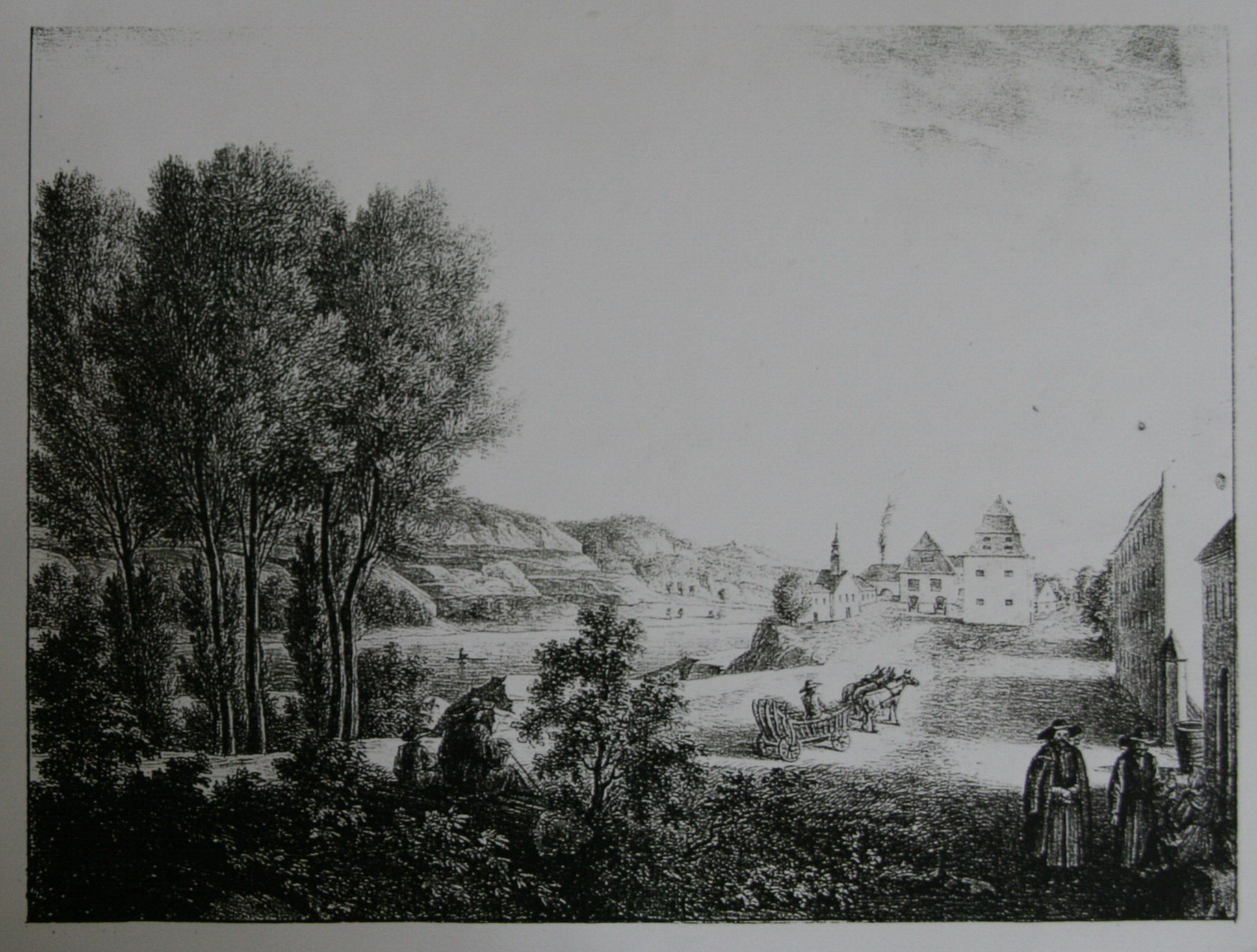 Dunamocs, Kingdom of Hungary (today Moča in Slovakia), 1827